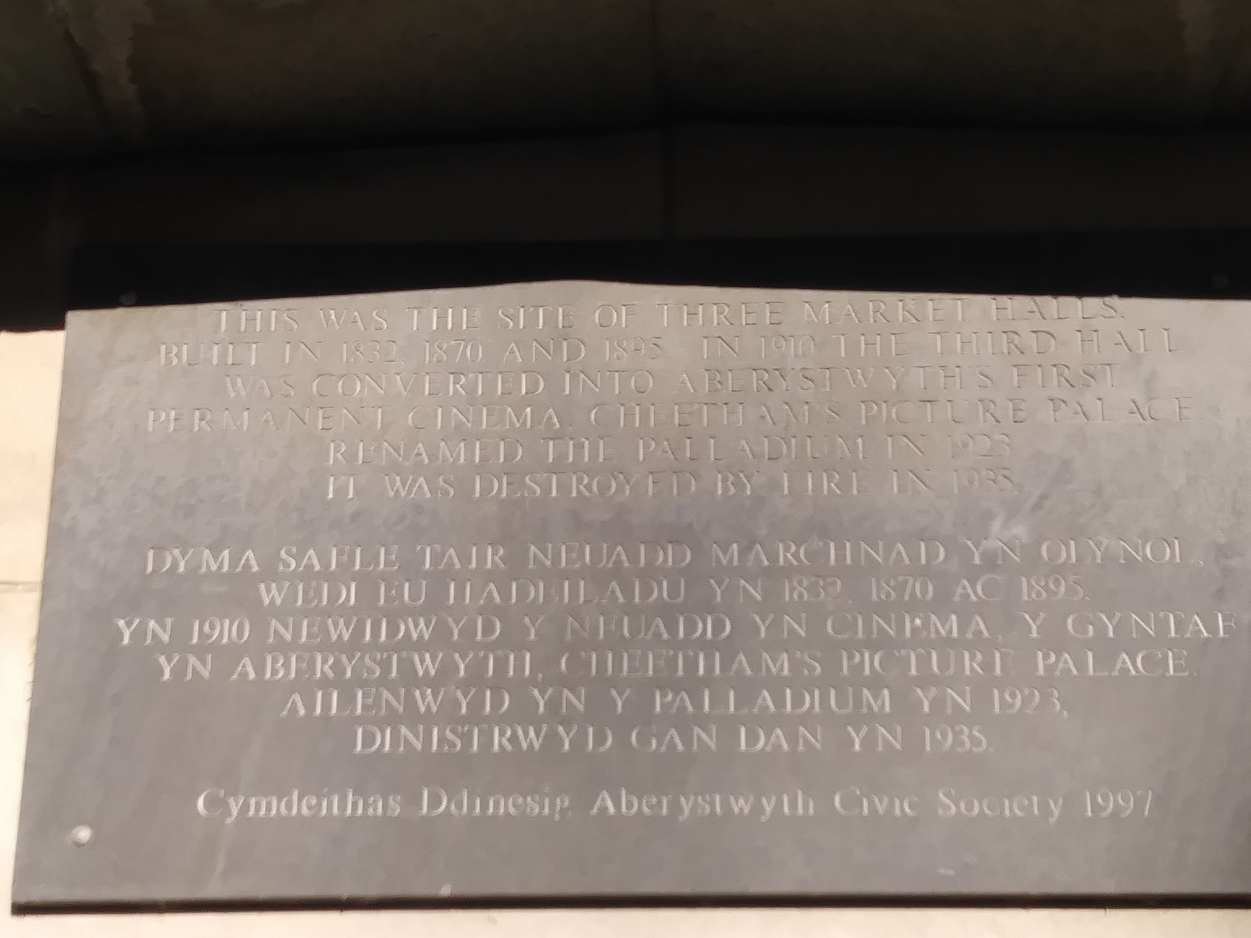 Pantyfedwen Buiding plaque, Market St, Aberystwyth Аҧсшәа: Plac Adeilad Pantyfedwen, Stryd y Farchnad, Aberystwyth